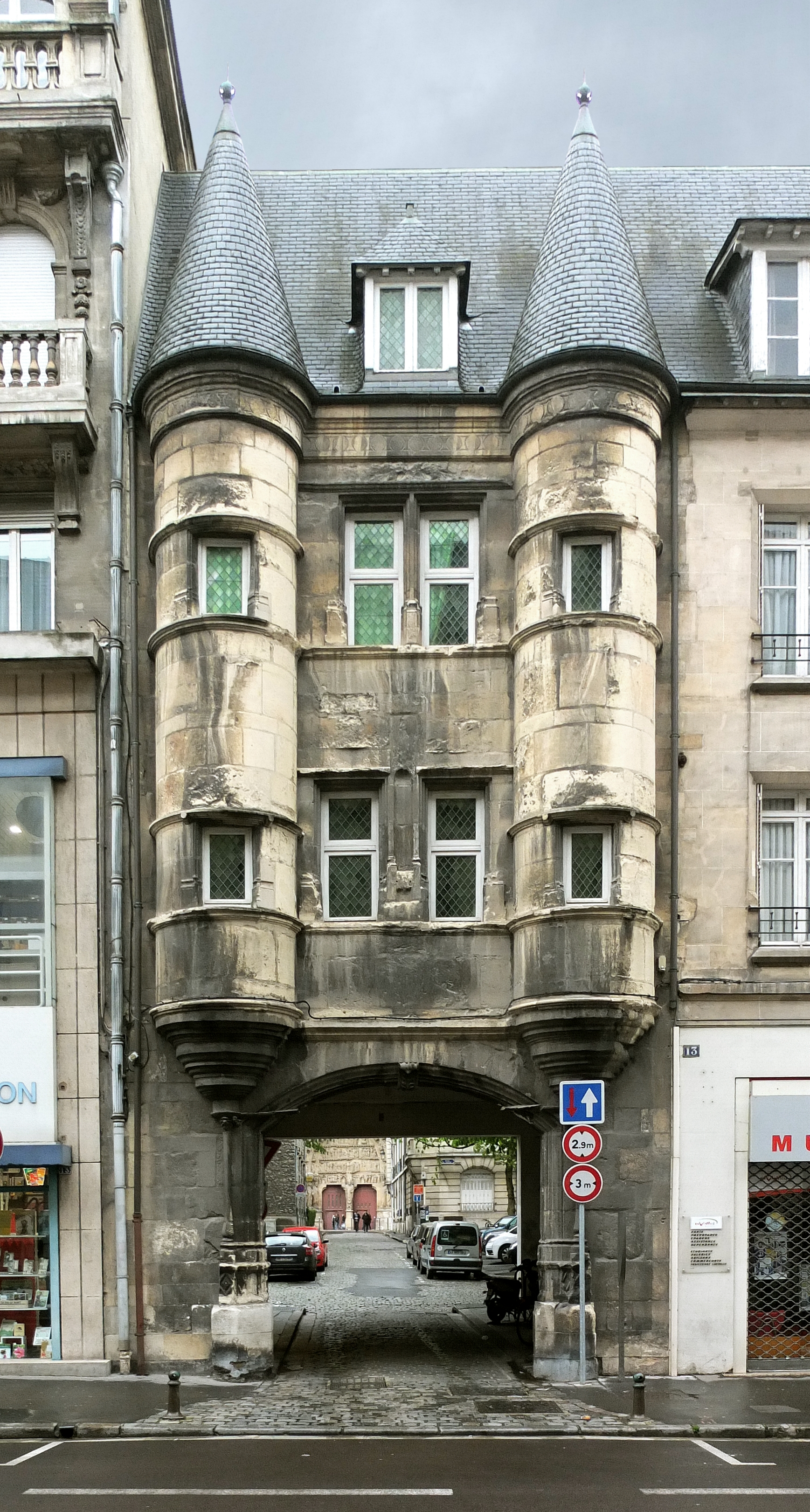 Building 15, rue Carnot, Reims, France. The gate called "Porte de la cour du chapitre" was built in 1531 as the entrance to the canonical district. Through the gate, the northern portal of the Cathedral is partly visible. The gate had elaborately carved wooden doors which are now in the Museum of Fine Arts.